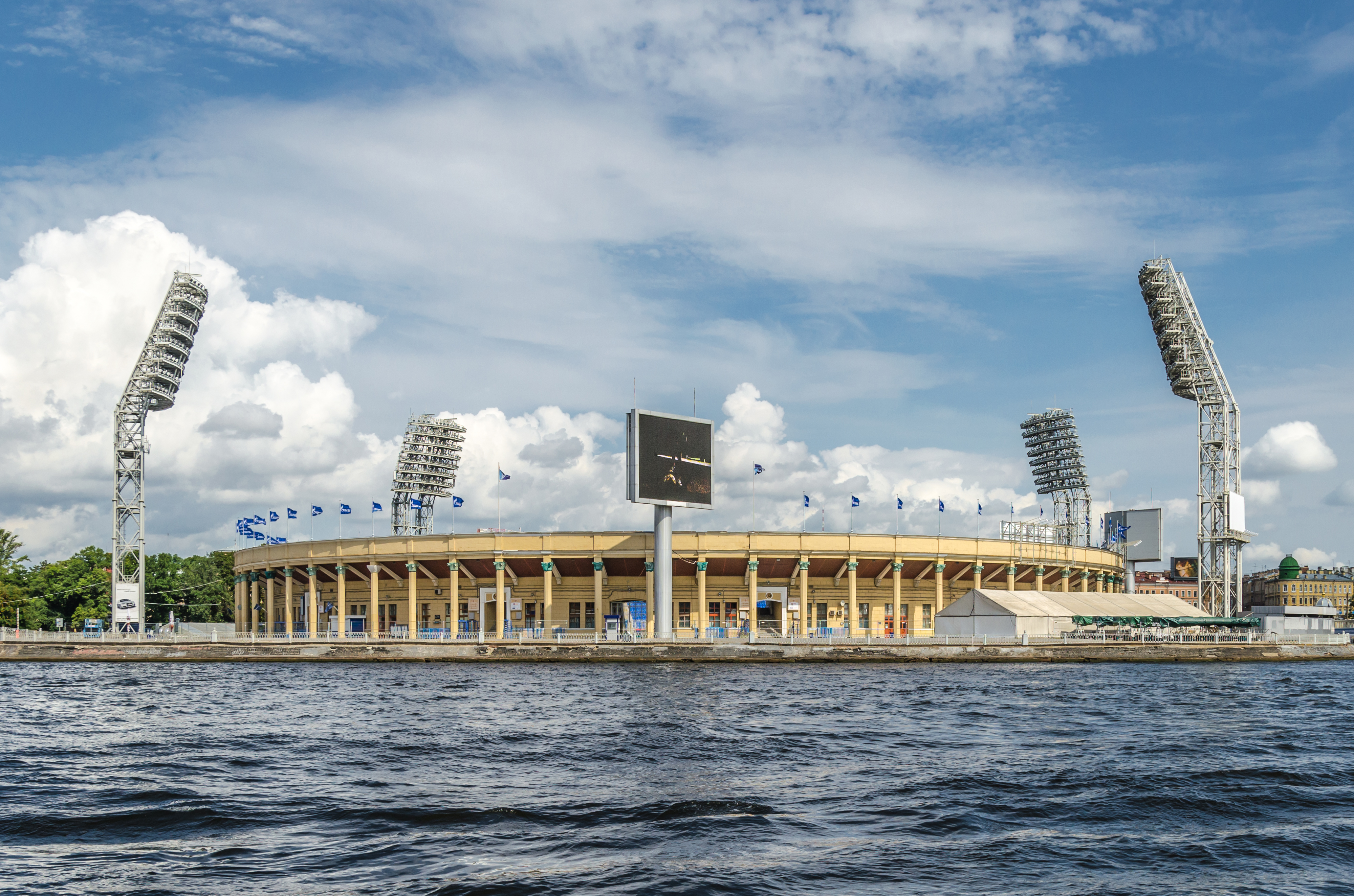 Petrovskiy football stadium in Saint Petersburg